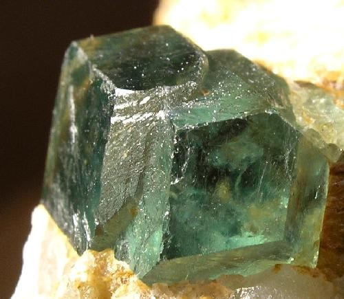 Andradite (Var.: Demantoid) Locality: Tubussis 22 farm (Tubussis; Tubusis; Tubessis), Karibib District, Erongo Region, Namibia (Locality at ) Size: 4.6 x 3 x 2.7 cm. A sharp and attractive gemmy intergrown Demantoid Garnet. The largest crystal is 8mm across, has a very attractive blue-green color and is gemmy. The lustrous Garnet sits very aesthetically on the matrix. Ex. Charlie Key.